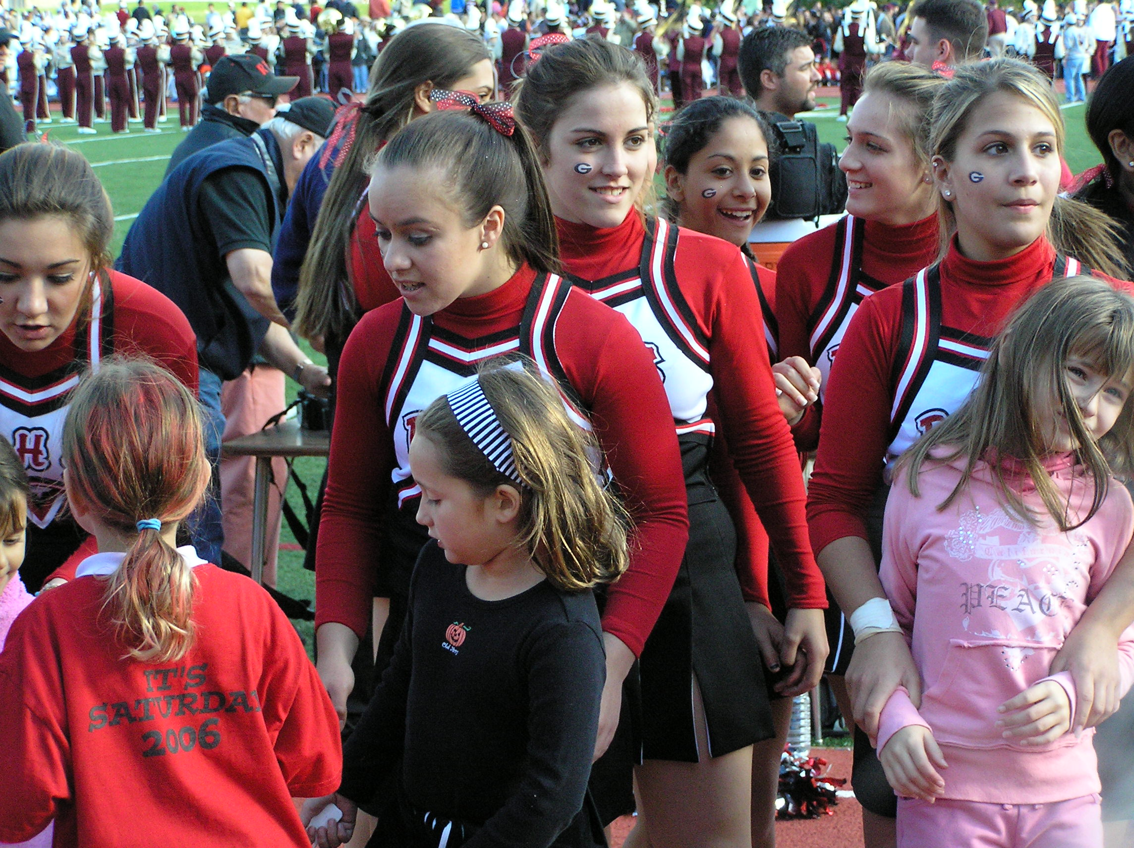 I took this photograph of the Rye High School, Rye, New York, cheerleaders at the 2006 Rye Harrison football game.